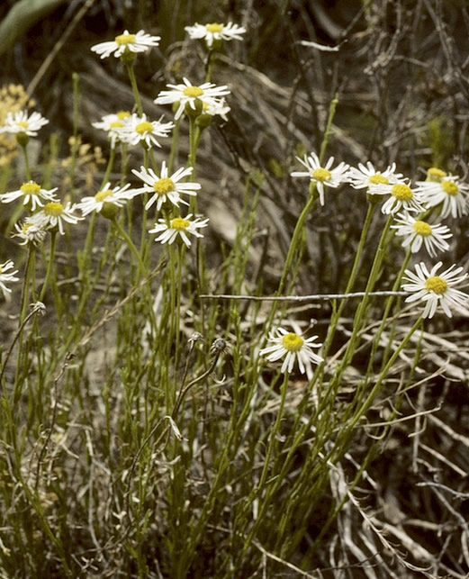 Erigeron rhizomatus USFS photo